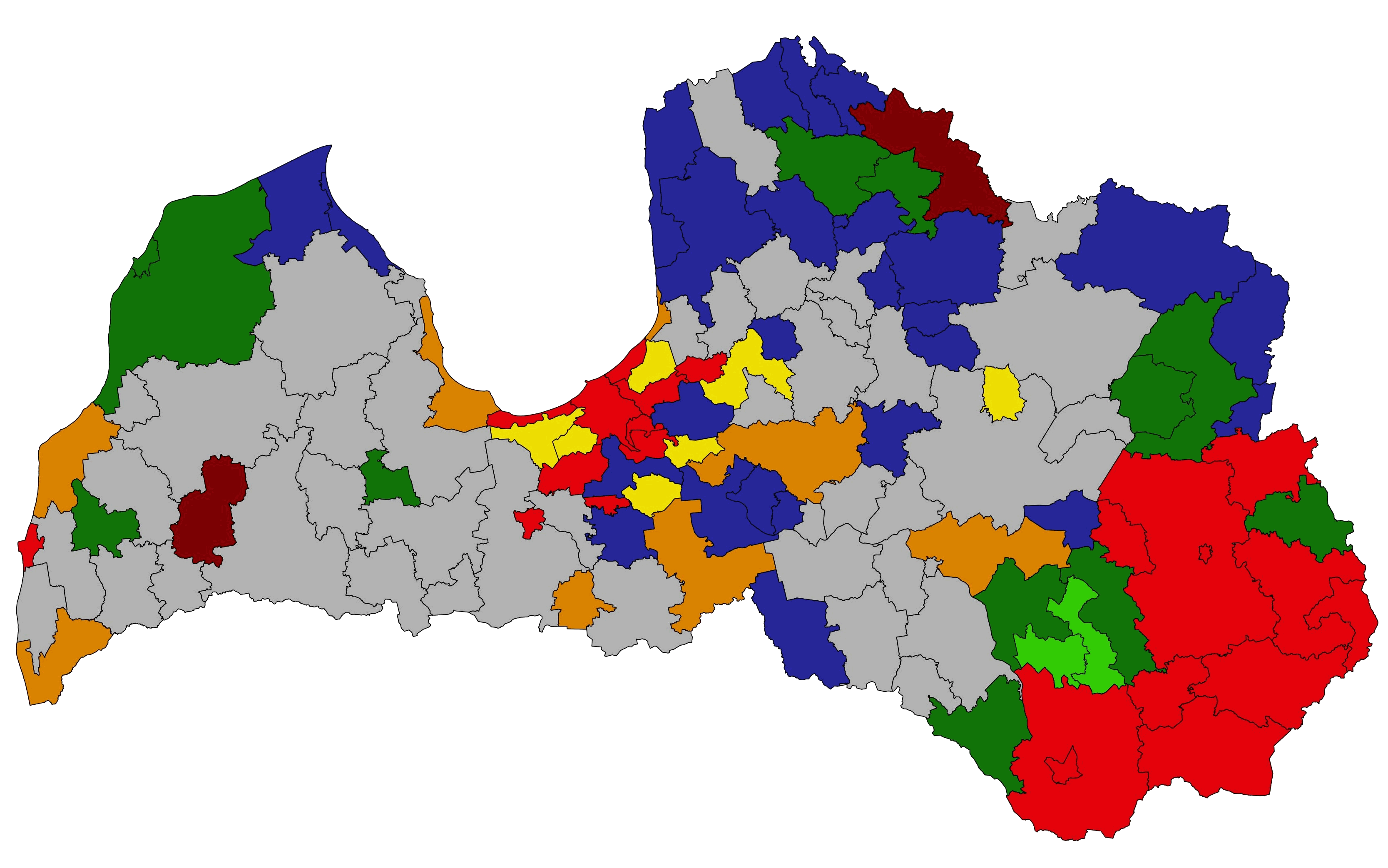 2018 Latvian parliamentary election, largest party by municipality